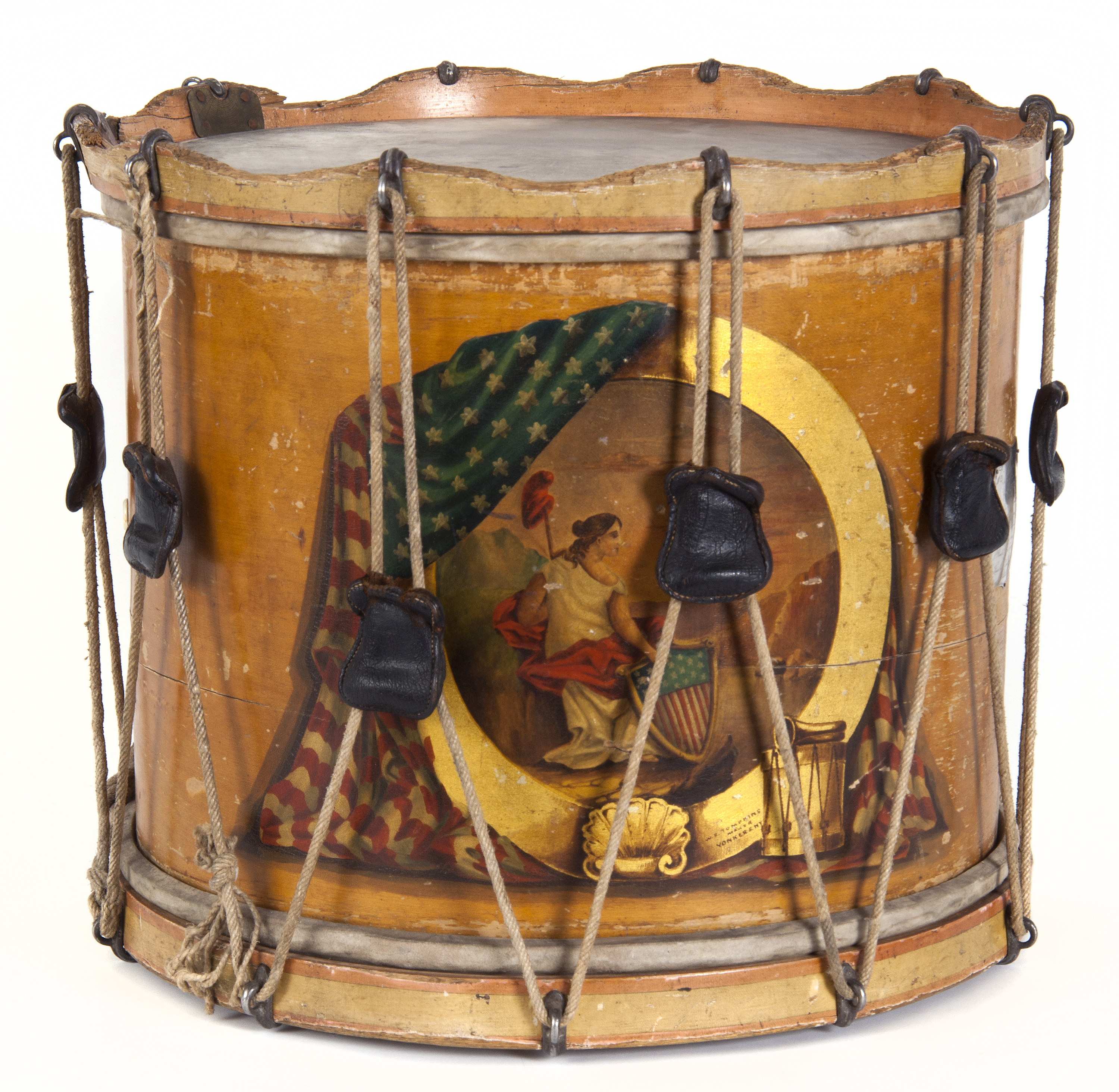 1st Minnesota Civil War drum, 1861. The 1st Minnesota Volunteer Infantry Regiment was the first unit from any state pledged to fight for the Uni1st Minnesota Civil War drumon. As part of the Army of the Potomac, the 1st took part in many significant battles and campaigns including Bull Run, the Peninsula Campaign, Antietam, and Gettysburg.The Battle of Gettysburg was the 1st Minnesota’s finest hour, where it made a heroic charge that helped secure the Union victory. The regiment suffered heavy losses as a result. Featured on the Minnesota Historical Society's Collections Up Close blog. Featured on the Minnesota Historical Society's Collections Up Close blog.